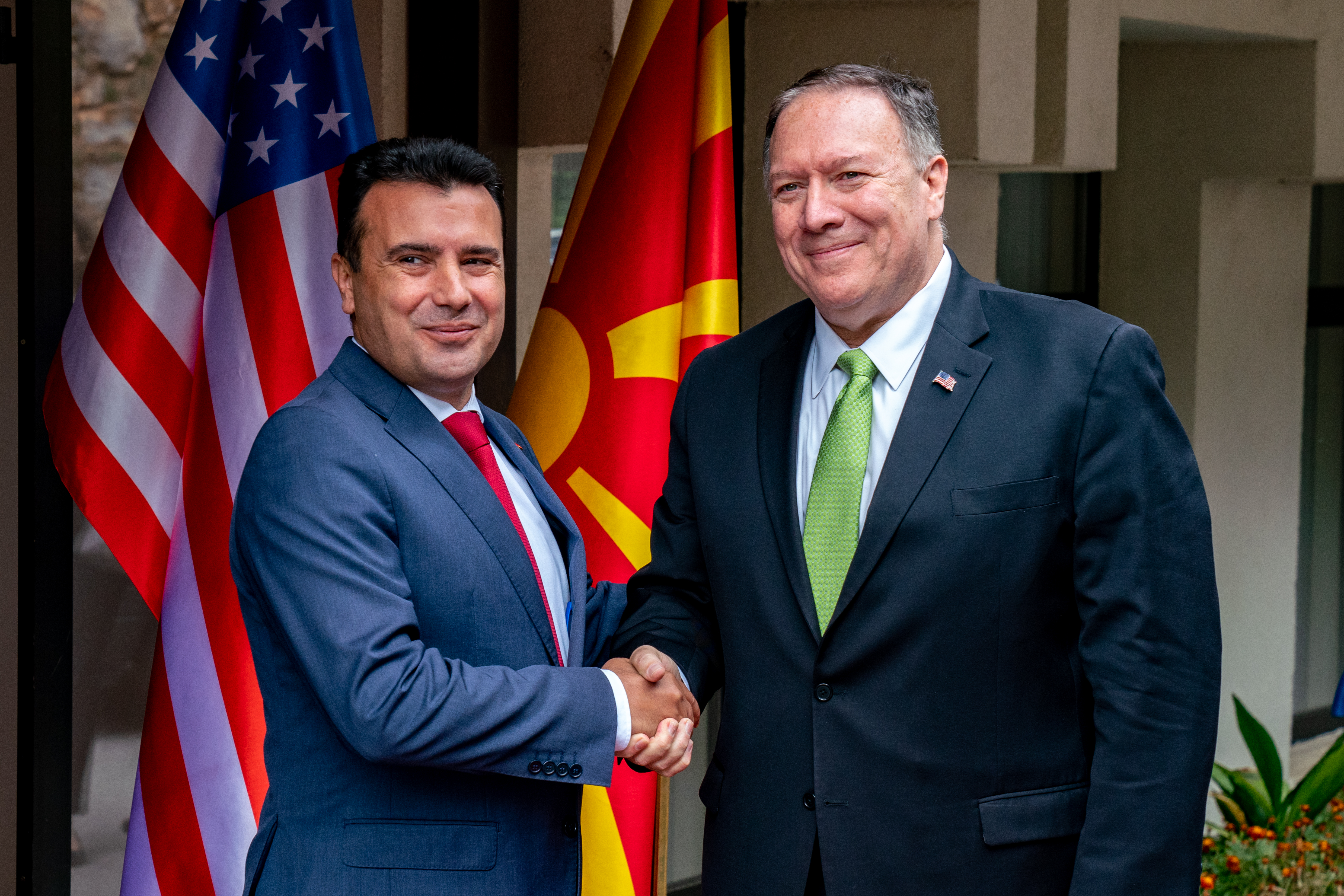 U.S. Secretary of State Michael R. Pompeo meets with North Macedonia Prime Minister Zoran Zaev and North Macedonia Cabinet Ministers in Lake Ohrid, North Macedonia, on October 4, 2019. [State Department photo by Ron Przysucha/ Public Domain]